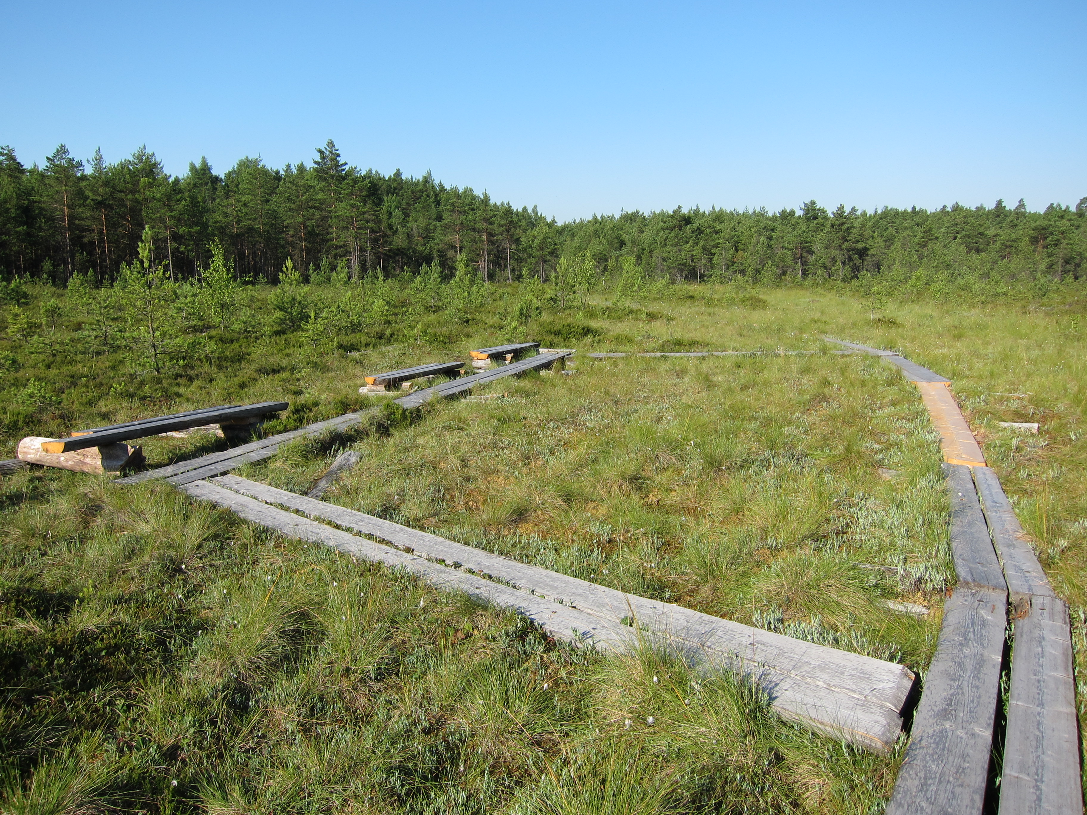 Duckboards in the Pomponrahka. Pomponrahka became protected under the Nature Conservation Act in 1983 and it is part of a national mire protection programme. The mire complex, approximately 70 hectares in area, consists of the Isosuo-bog located further North, and Pomponrahka-bog further south. Pomponrahka is located in the south-west of Finland, city of Turku.